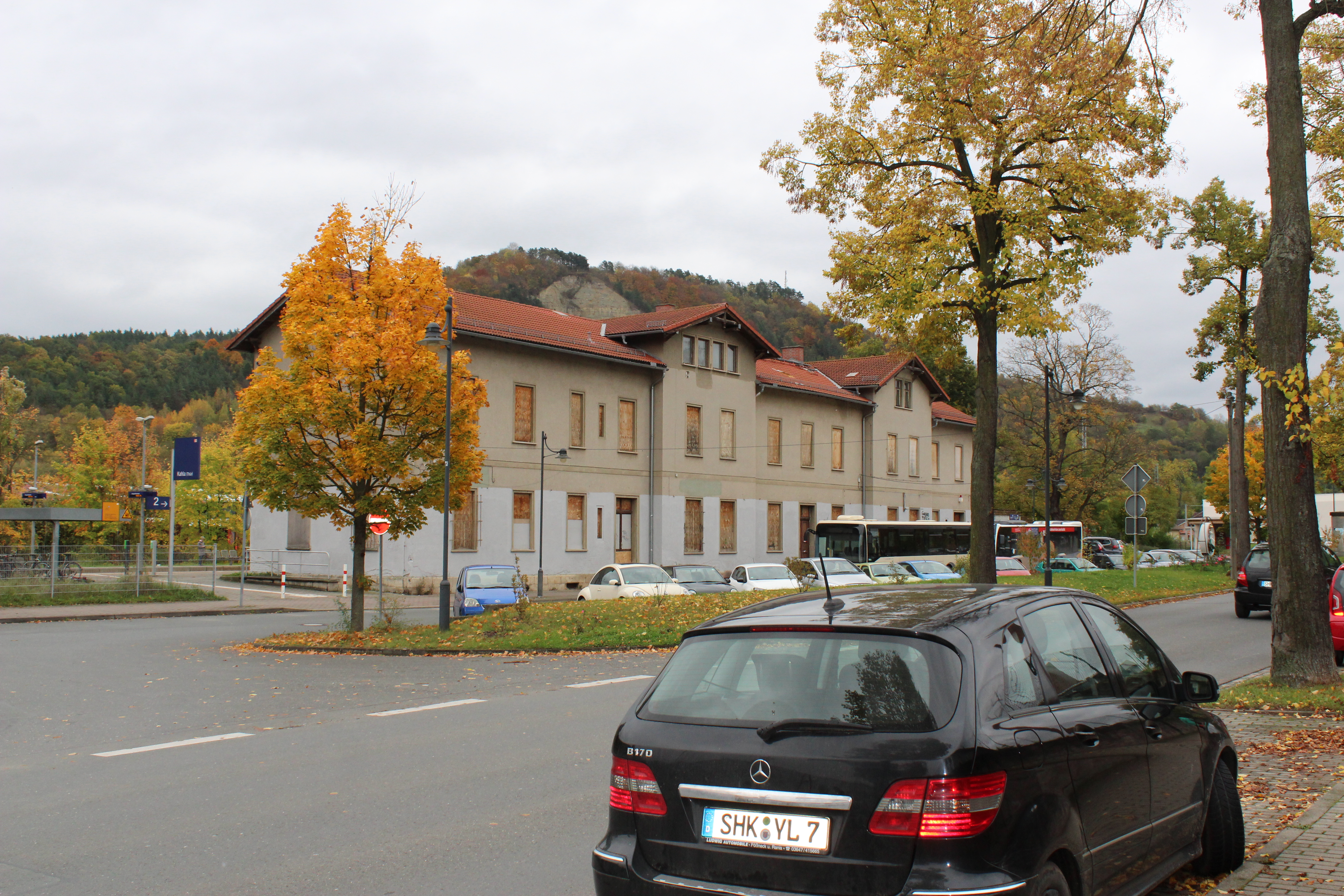 train station Kahla (Thür), station building, street side